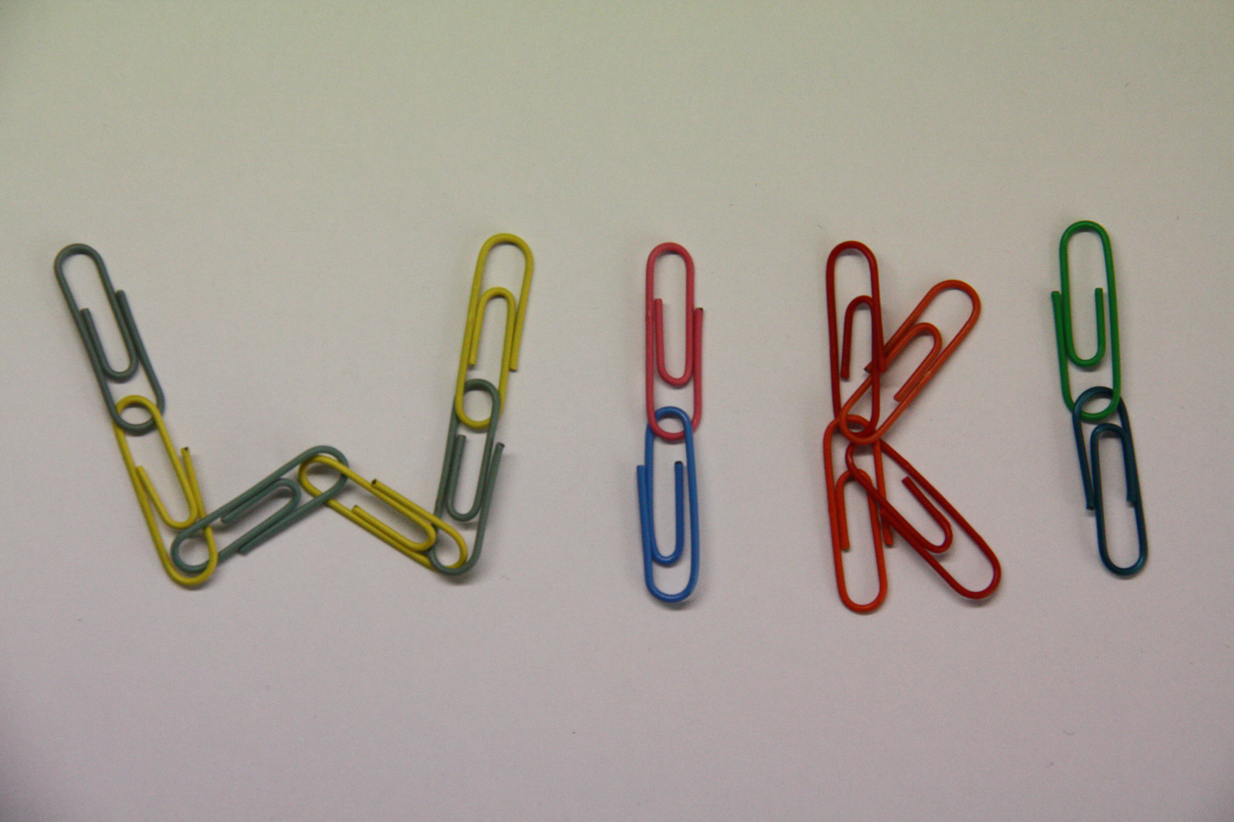 Paper clip